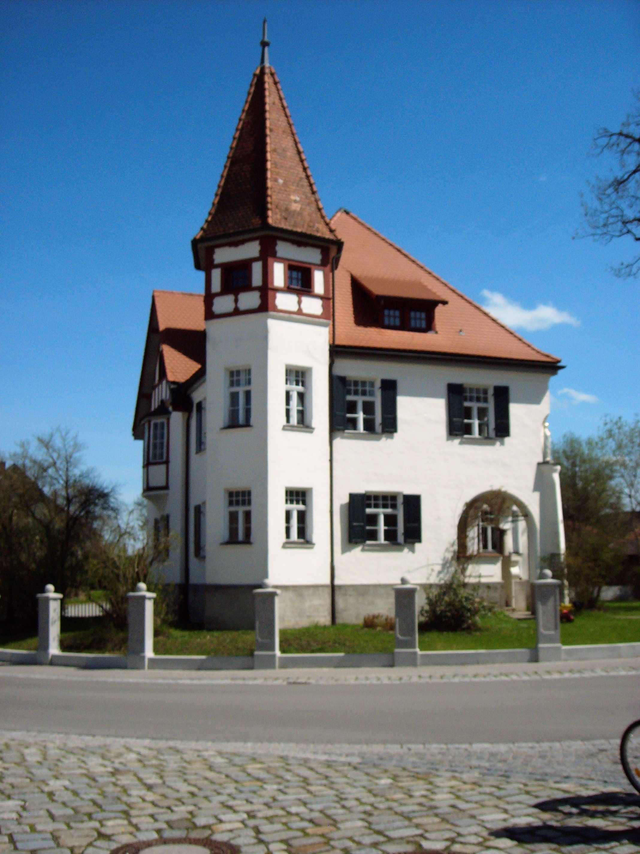 Leeder (Fuchstal), exterior view of a late historicist mansion on Hauptstraße (no. 29) from north-west.